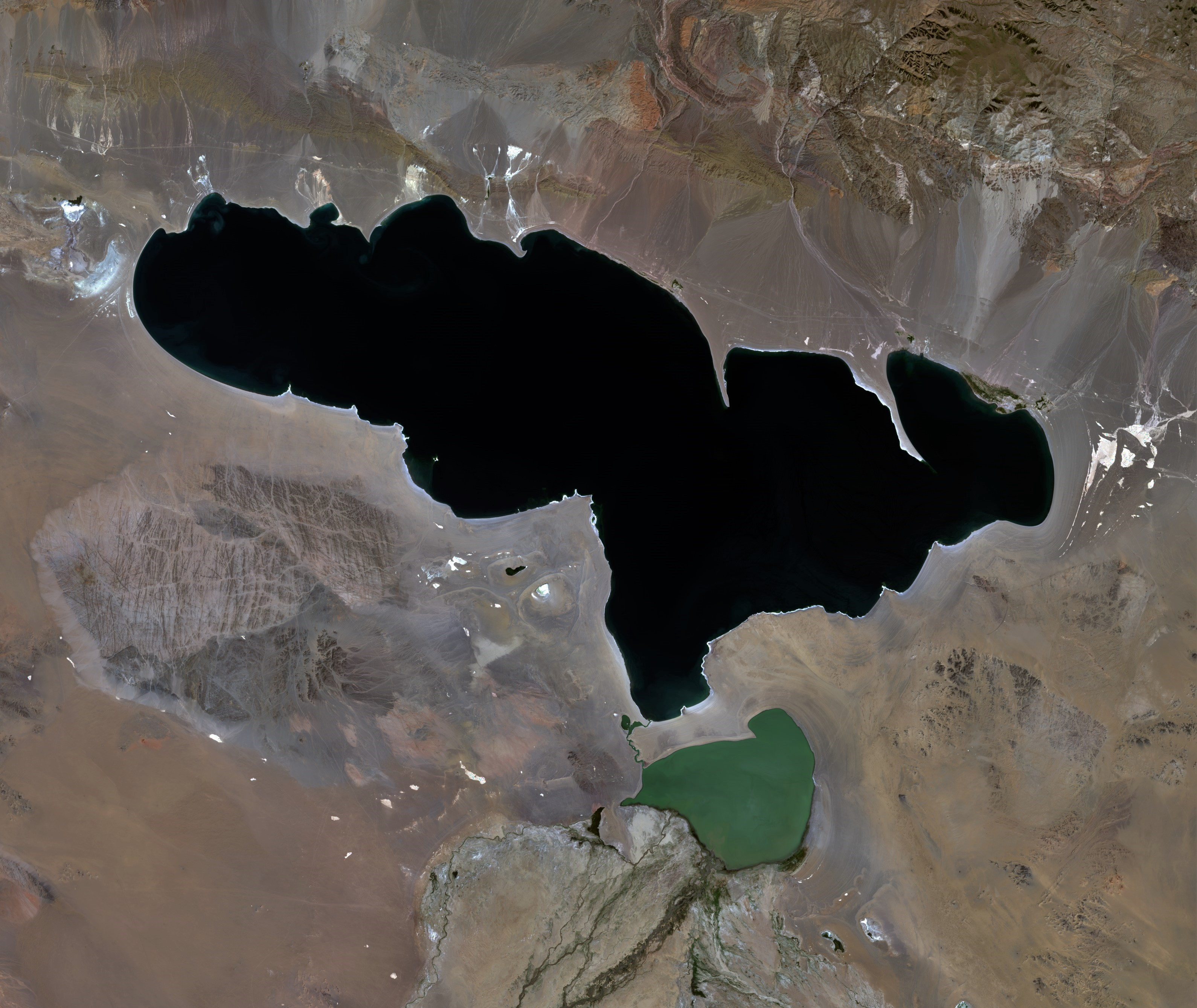 Khyargas Nuur and Airag Nuur lakes, Mongolia, near natural colors Landsat image, spatial resolution 30 m, 07-28-2015